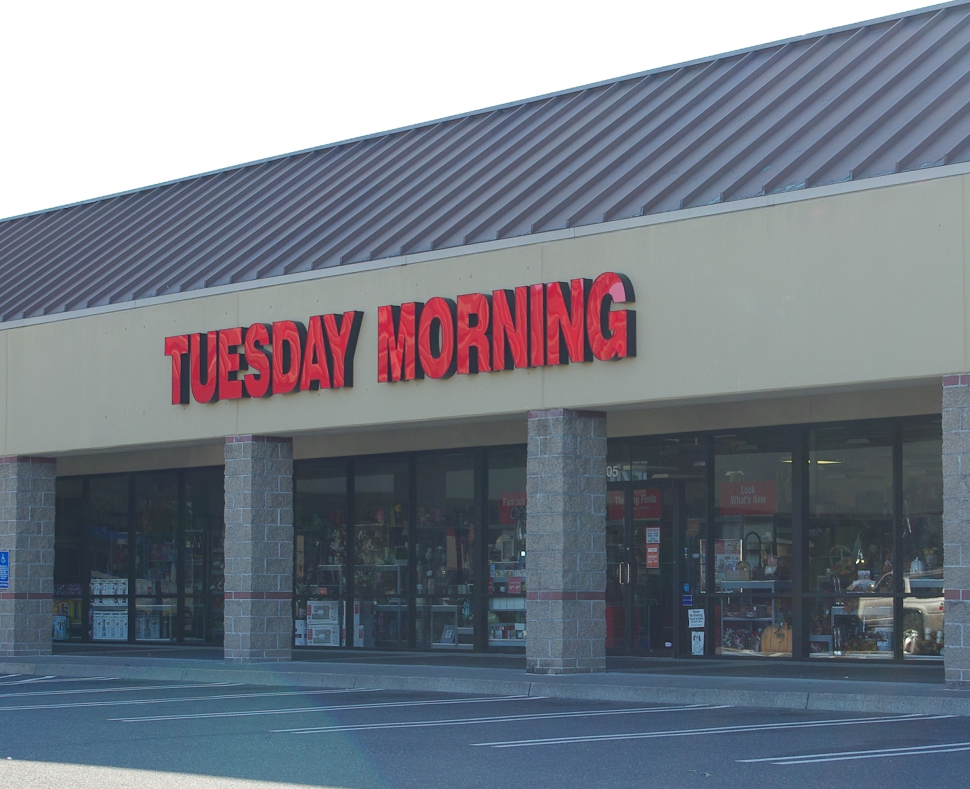 Tuesday Morning at the Sunset Esplanade in Hillsboro, Oregon.